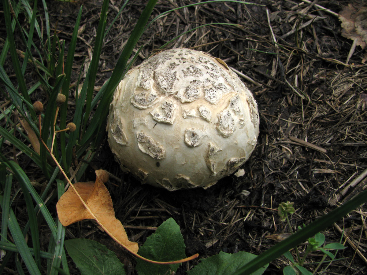 The puffball species Mycenastrum corium (Guers.) Desv. Specimen photographed in Pokrovskoye-Streshnevo, Moscow, Russia.